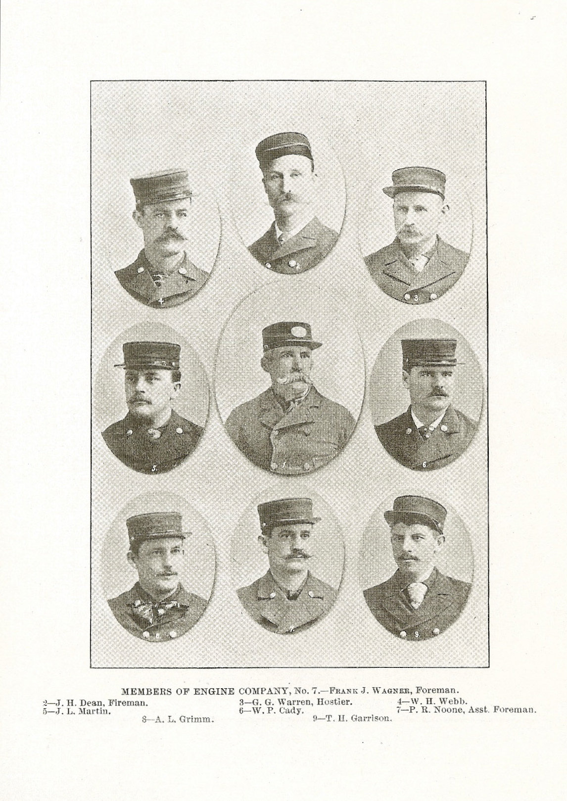 Photo montage of original members of Engine Co. No. 7 (Washington, D.C.)